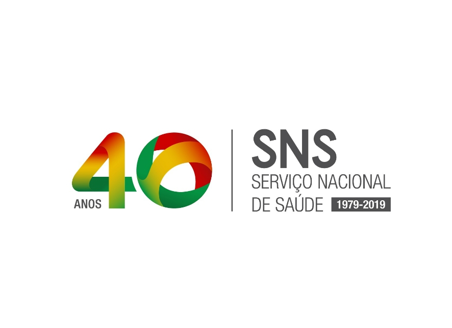 logo da direcao geral de saude